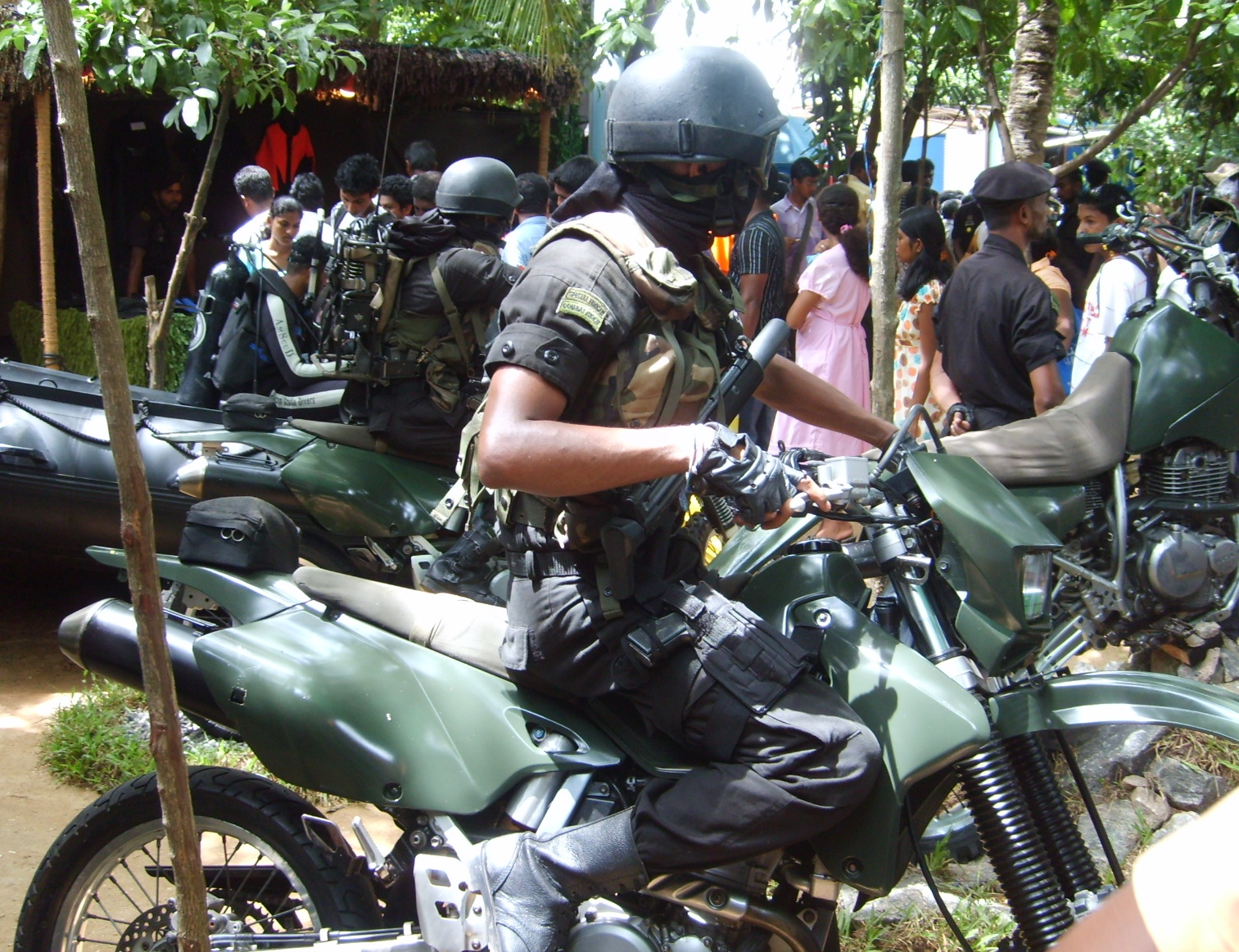 A combat rider team of the Sri Lanka Army Special Forces Regiment at the Army 60th Anniversary Exhibition. Note the "COMBAT RIDER" and "SPECIAL FORCES" shoulder tabs.